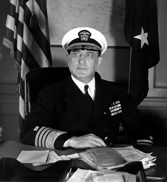 Admiral Ben Moreell, USNChief of Naval Material